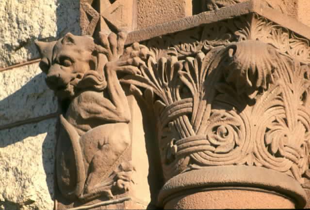 A detail of Albany City Hall, designed by Henry Hobson Richardson